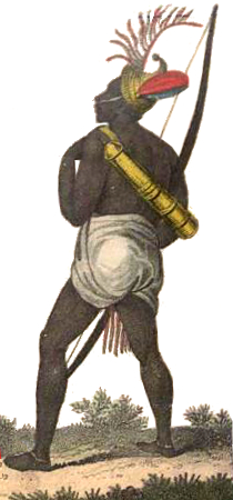 Archer of the Bambara kingdom of Segou. Note: The vegetation above his left feet is photoshopped.